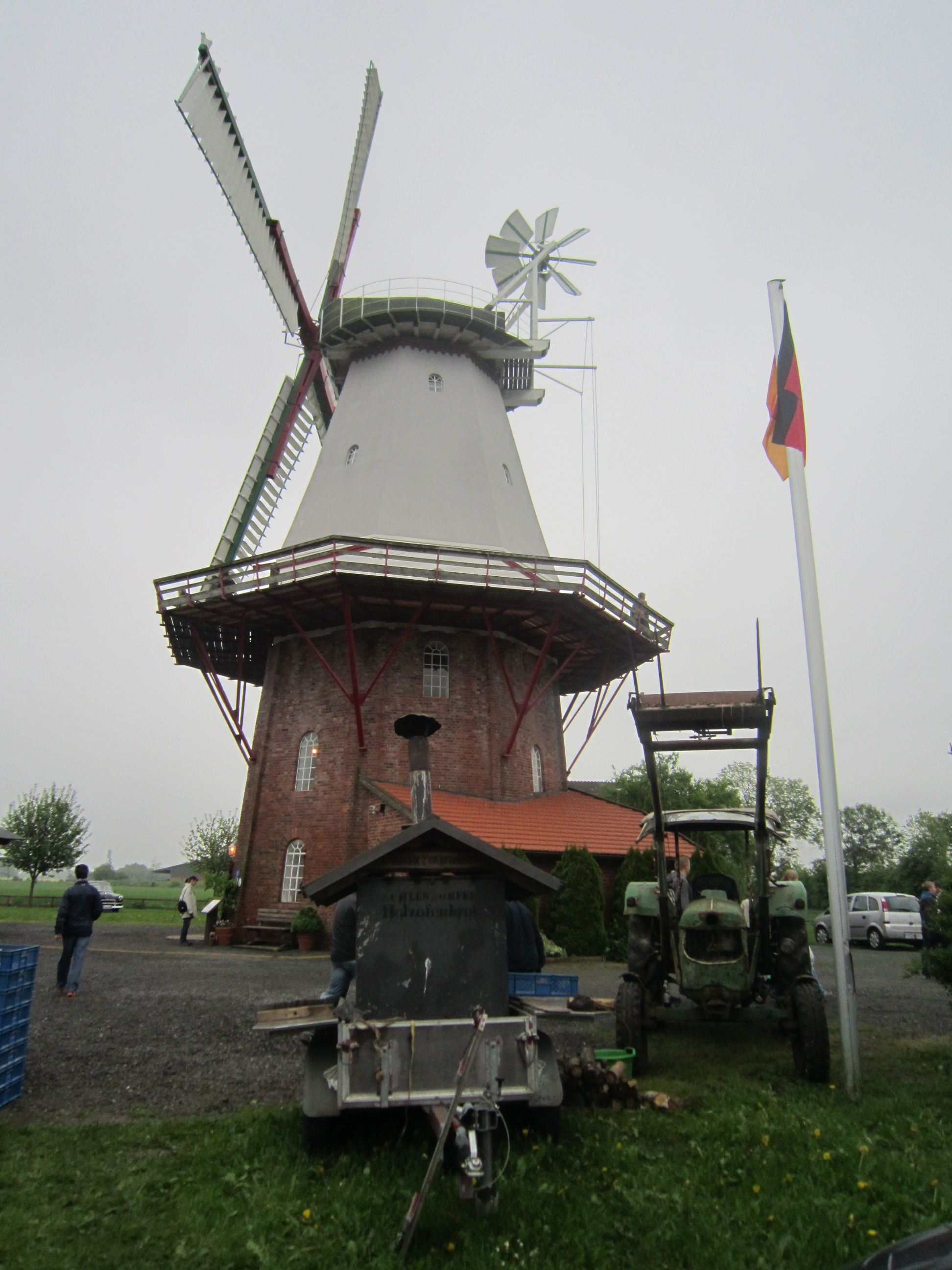 Windmill in Blender (Landkreis Verden)